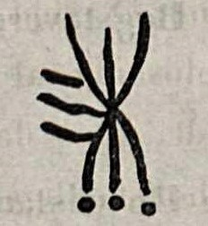 Detail from the so-called Runamo runes. According to Finnur Magnússon this is a bind rune showing King Sigurd Hringr's monogram.